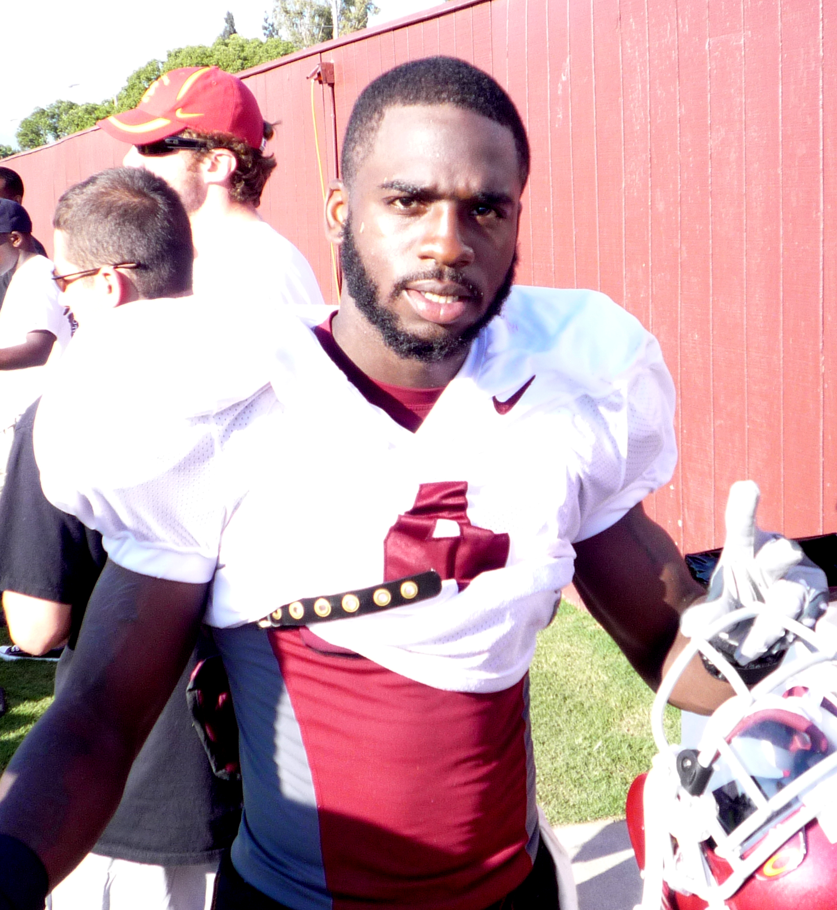 Running back Joe McKnight, after a fall practice before the 2008 USC Trojans football season. He is making the traditional USC Trojan "V" for victory hand sign.